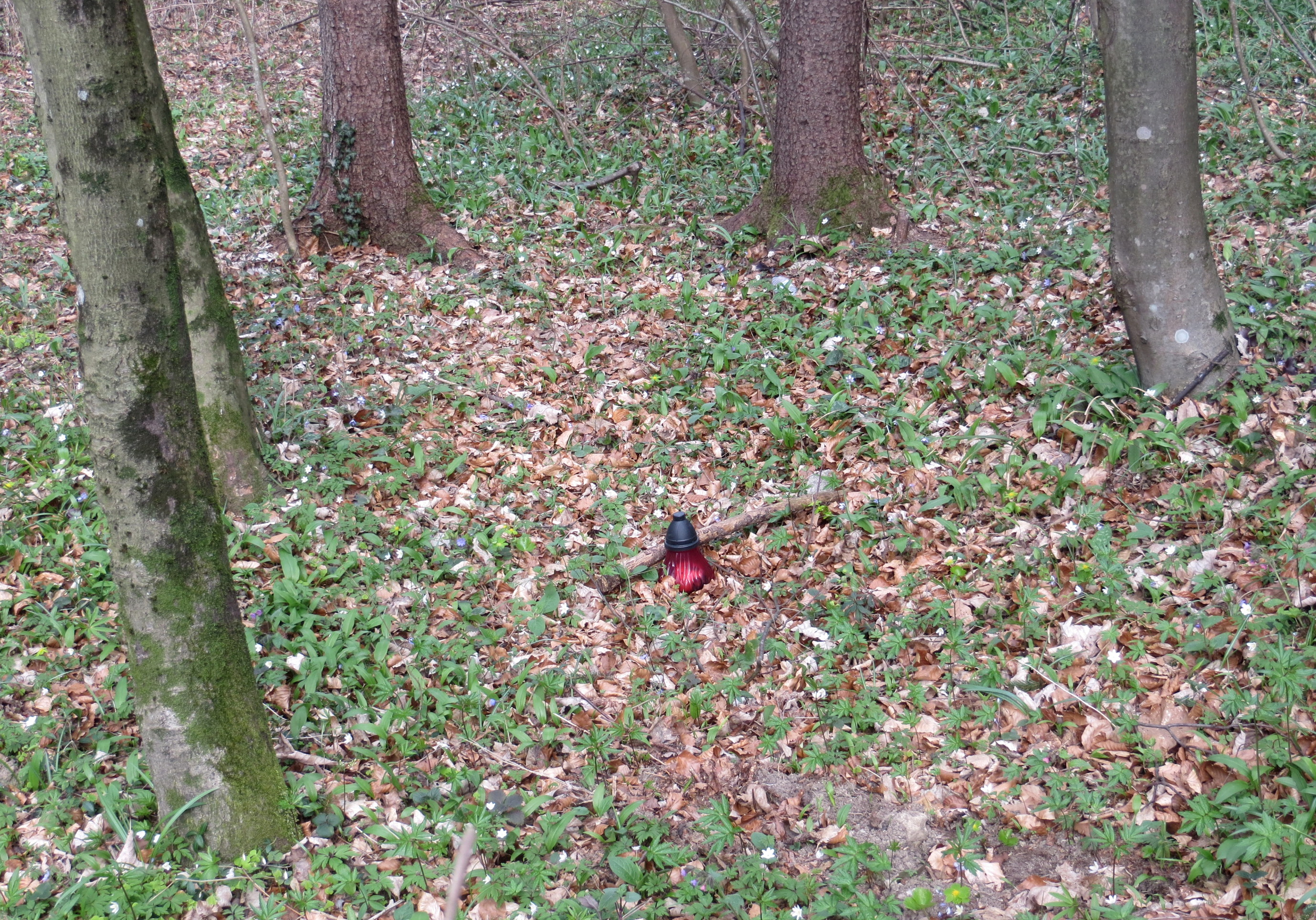 Gorge Mass Grave (Grobišče Soteska) in Vešter, Municipality of Škofja Loka, Slovenia